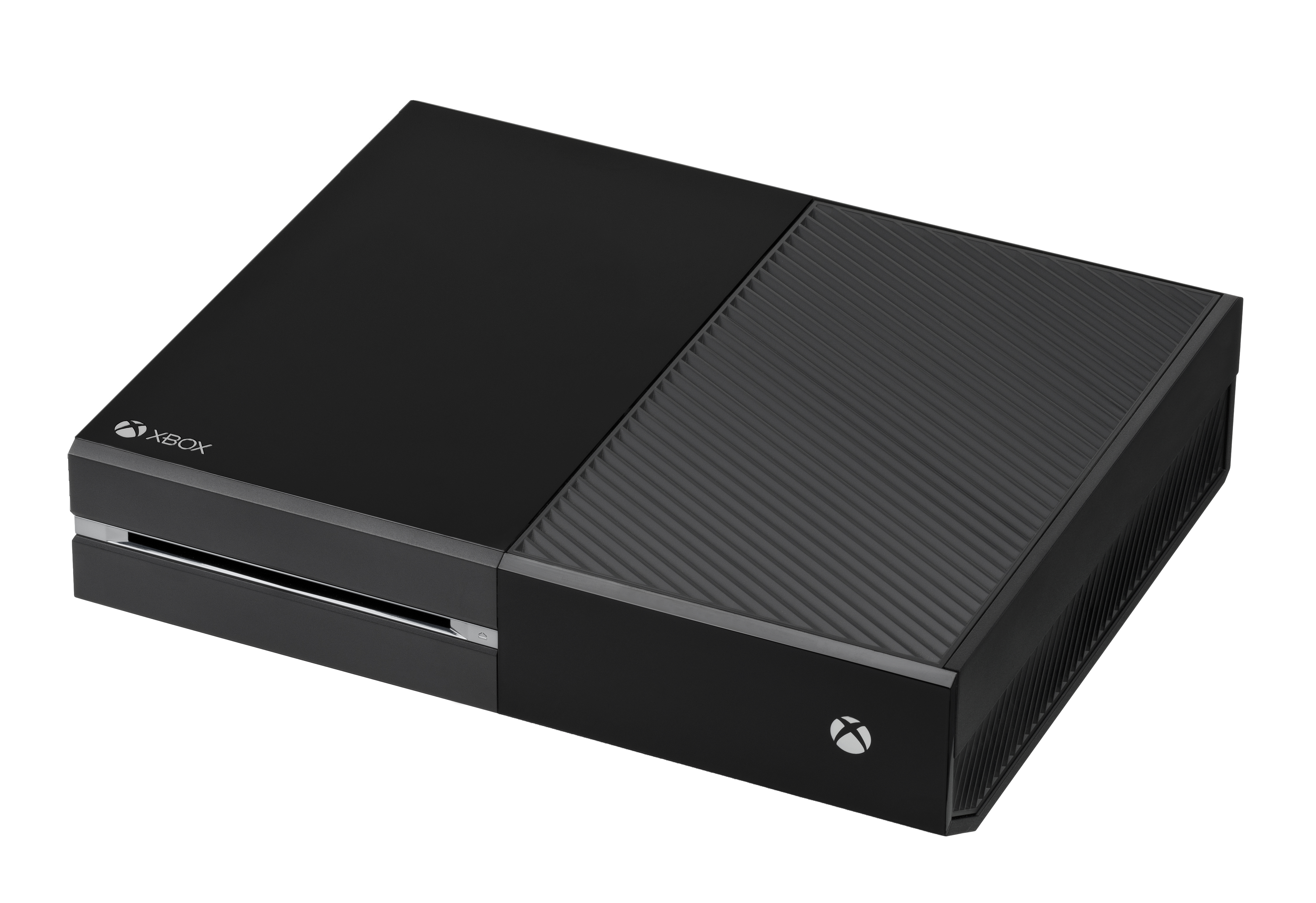 The Xbox One video game console, made by Microsoft and originally released in 2013. It is an eighth-generation system, proceeding the Xbox 360.